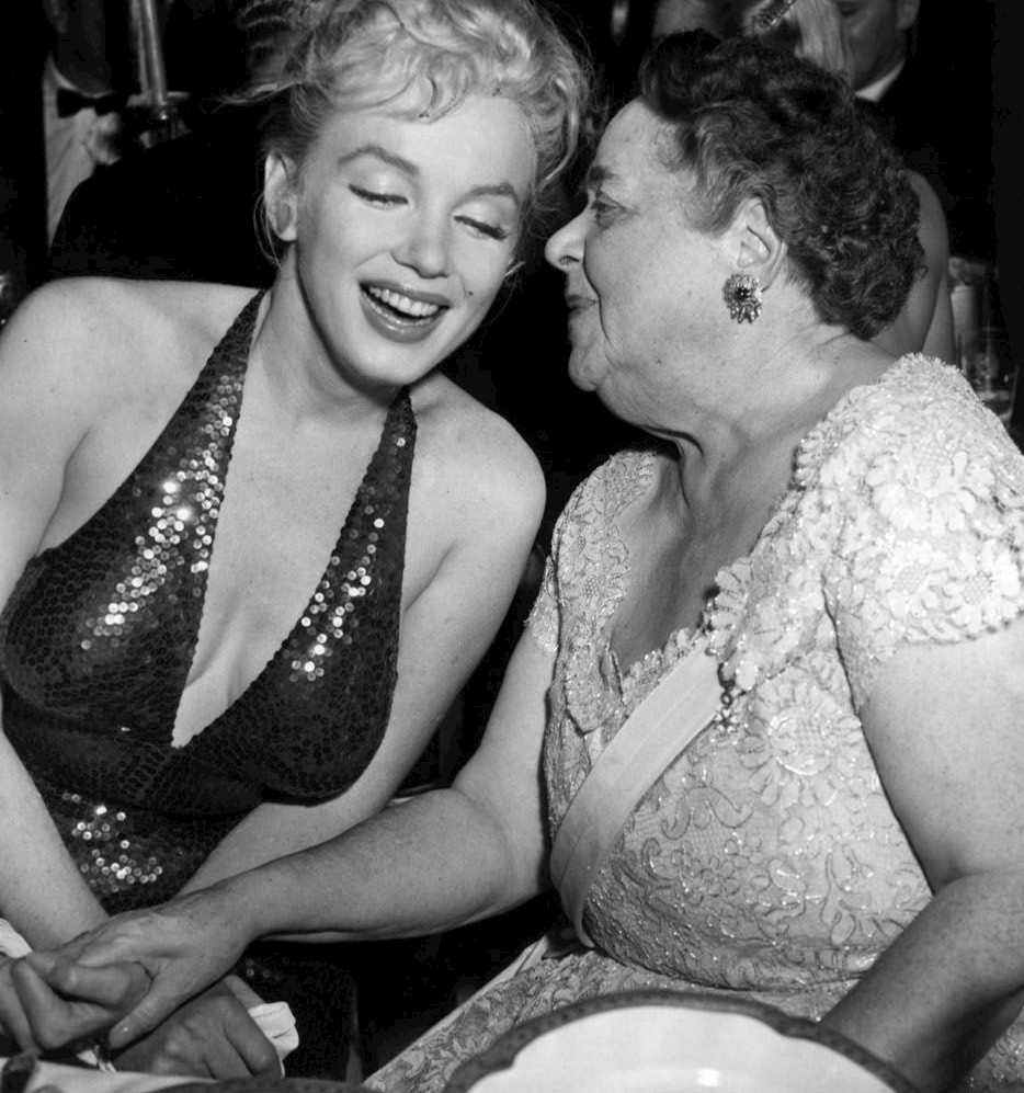 Photo of Elsa Maxwell and Marilyn Monroe at the April in Paris Ball held at the Waldorf-Astoria in New York in 1957.